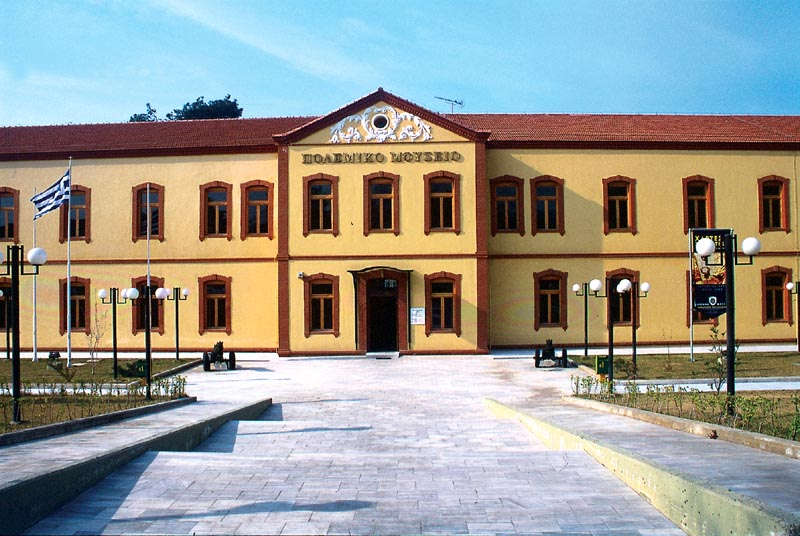 External view, image from the War Museum, Thessaloniki, Central Macedonia, Greece